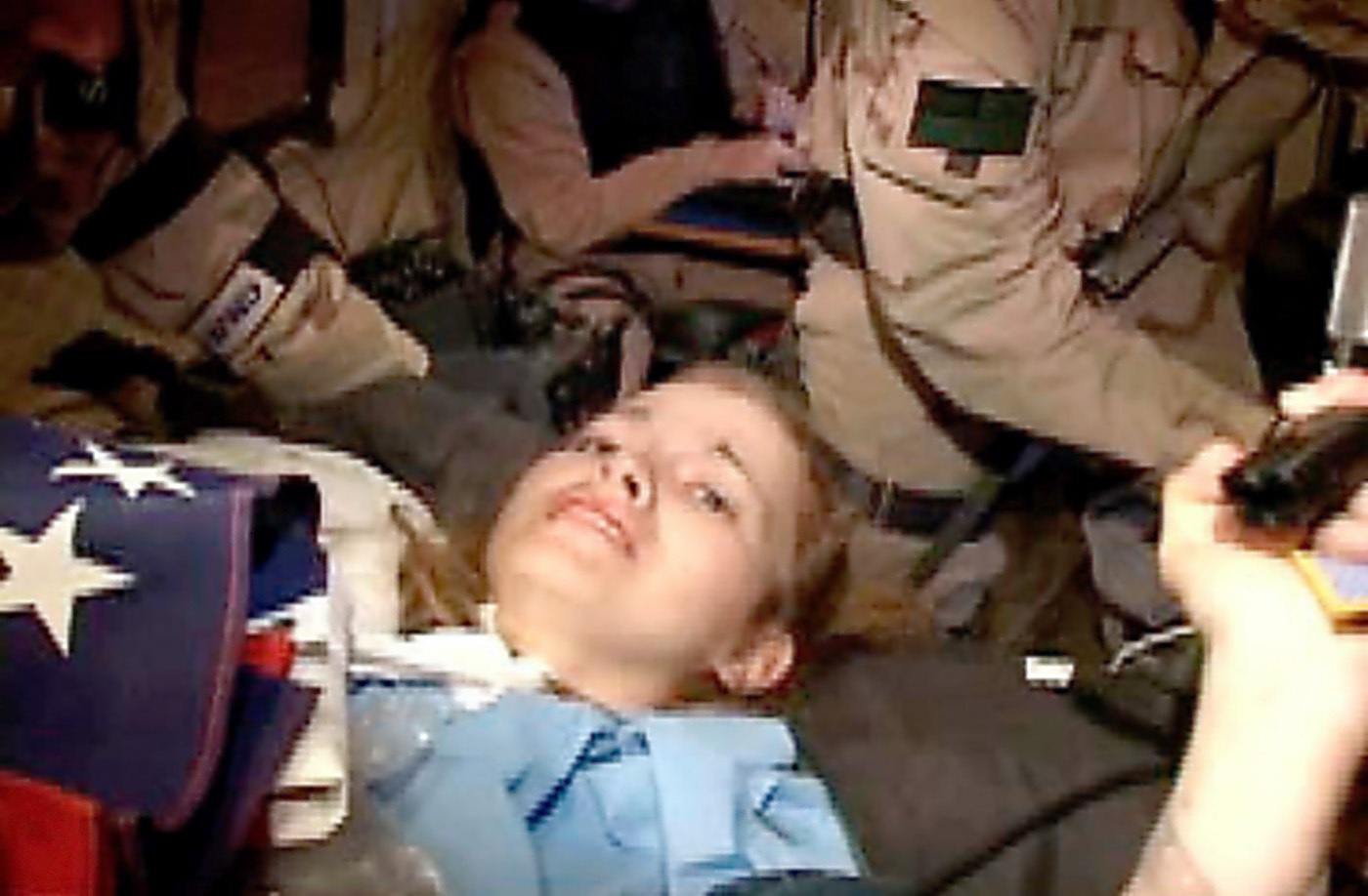 030402-D-0000X-004 Operation Iraqi Freedom -- U.S. Army Pfc. Jessica D. Lynch, 19, of Palestine, W.Va., is shown being carried aboard a coalition aircraft following her rescue from her Iraqi captors. Lynch had been listed as Duty Status Whereabouts Unknown following an ambush of her convoy by enemy forces on March 23, 2003. Lynch had been held at Saddam Hospital in the town of Nasiriyah, Iraq a facilty used by the Iraqi regime as a military post. Lynch is assigned to the 507th Ordnance Maintenance Company, Fort Bliss, Texas. U.S. Army Rangers, Air Force combat controllers, Navy SEALs (Sea Air Land) and Marines participated in the rescue effort.